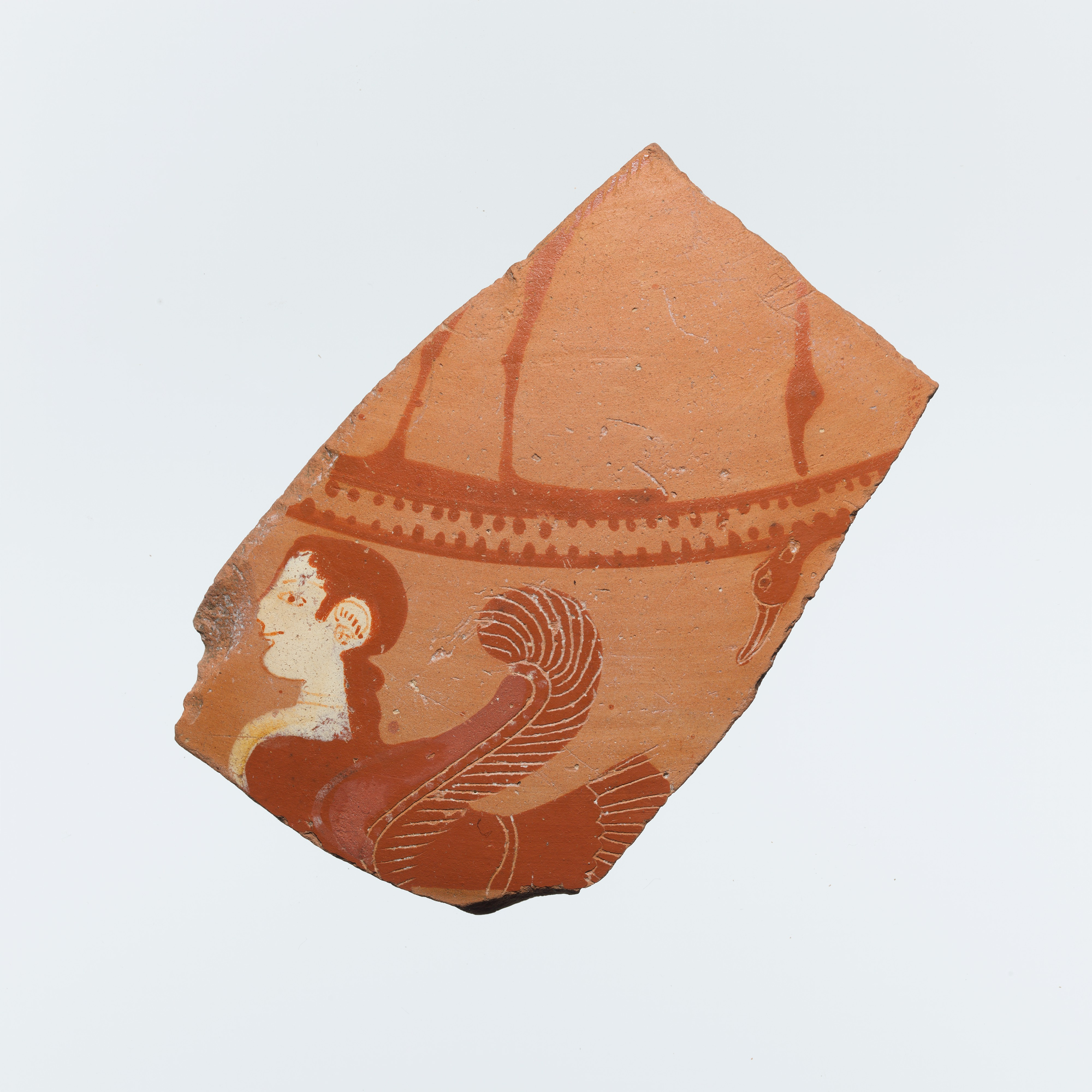 Upper register: legs and head of a crane. Lower register: siren and head of swan.